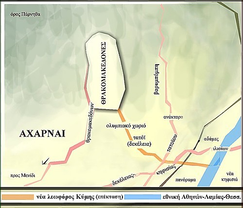 Map of Thrakomakedones, Attica, Greece